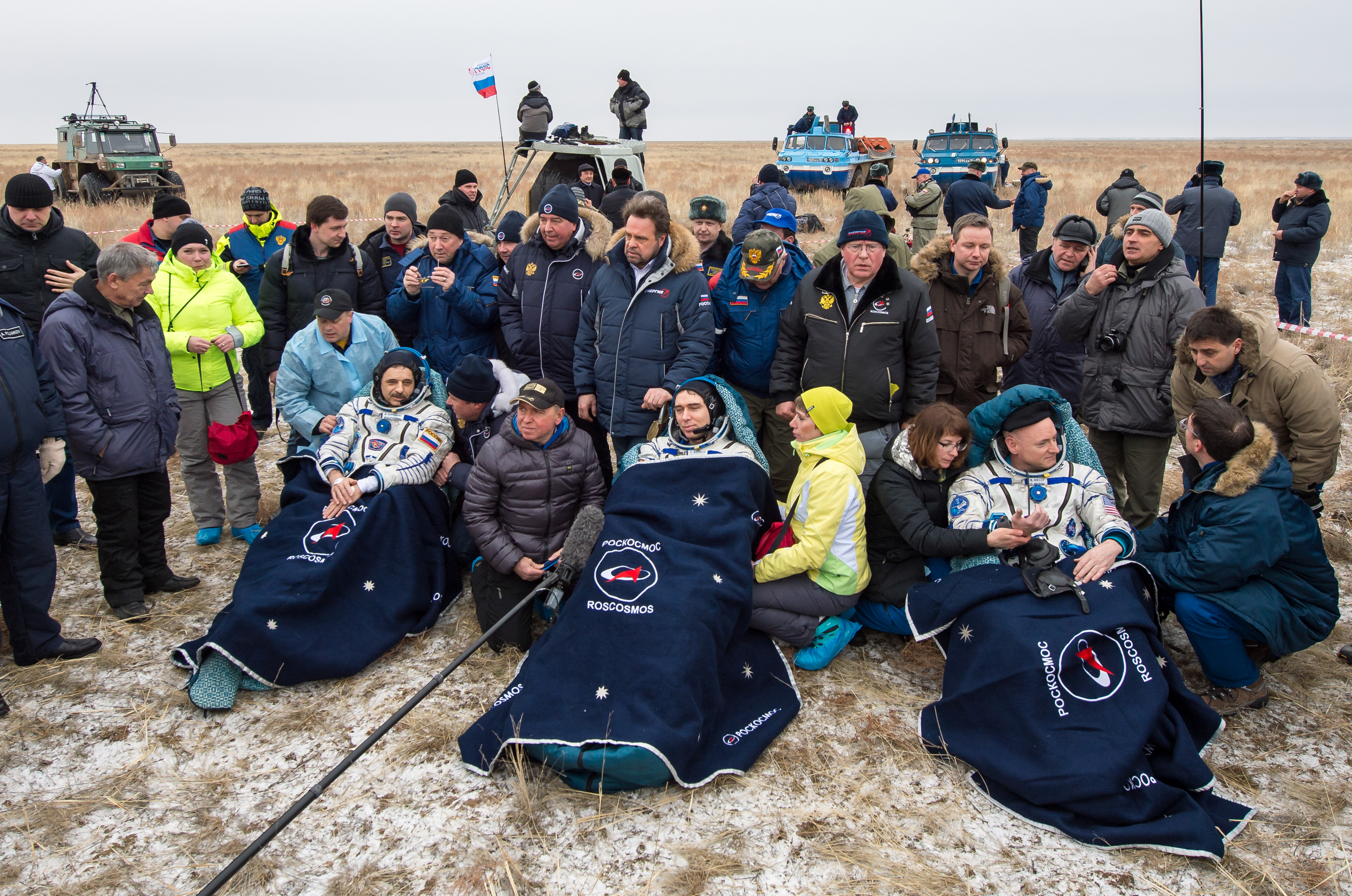 Russian cosmonauts Mikhail Kornienko, left, Sergey Volkov of Roscosmos, center, and Expedition 46 Commander Scott Kelly of NASA, rest in chairs outside of the Soyuz TMA-18M spacecraft just minutes after they landed in a remote area near the town of Zhezkazgan, Kazakhstan on Wednesday, March 2, 2016 (Kazakh time). Kelly and Kornienko completed an International Space Station record year-long mission to collect valuable data on the effect of long duration weightlessness on the human body that will be used to formulate a human mission to Mars. Volkov returned after spending six months on the station.